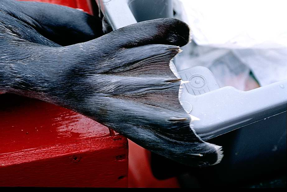 Ringed seal hunted in Hudson Strait off Cape Dorset (Nunavut, Canada)